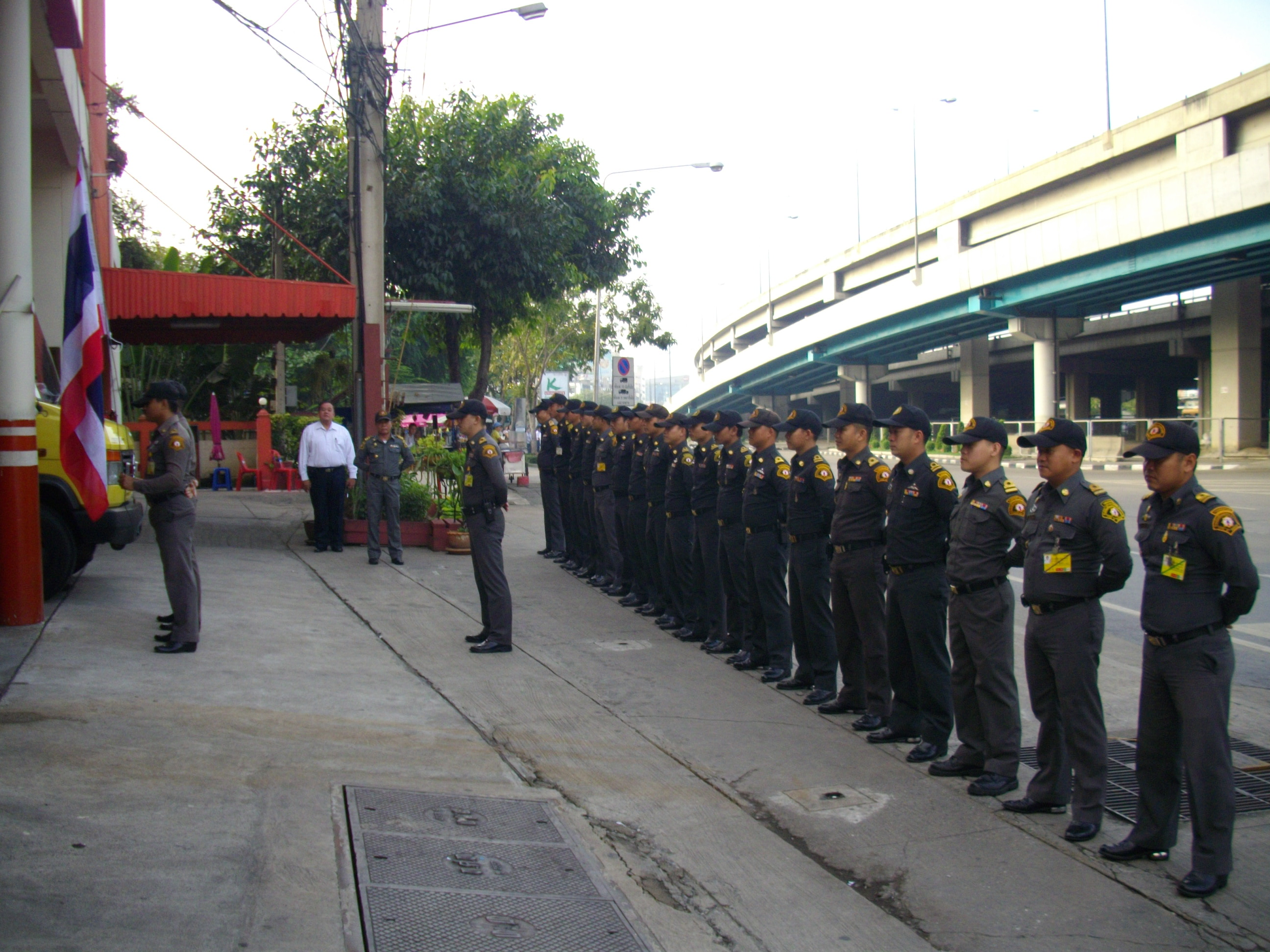 Thai officers stand for raising the flag of Thailand ceremony at 8.00 a.m. in front off their office.